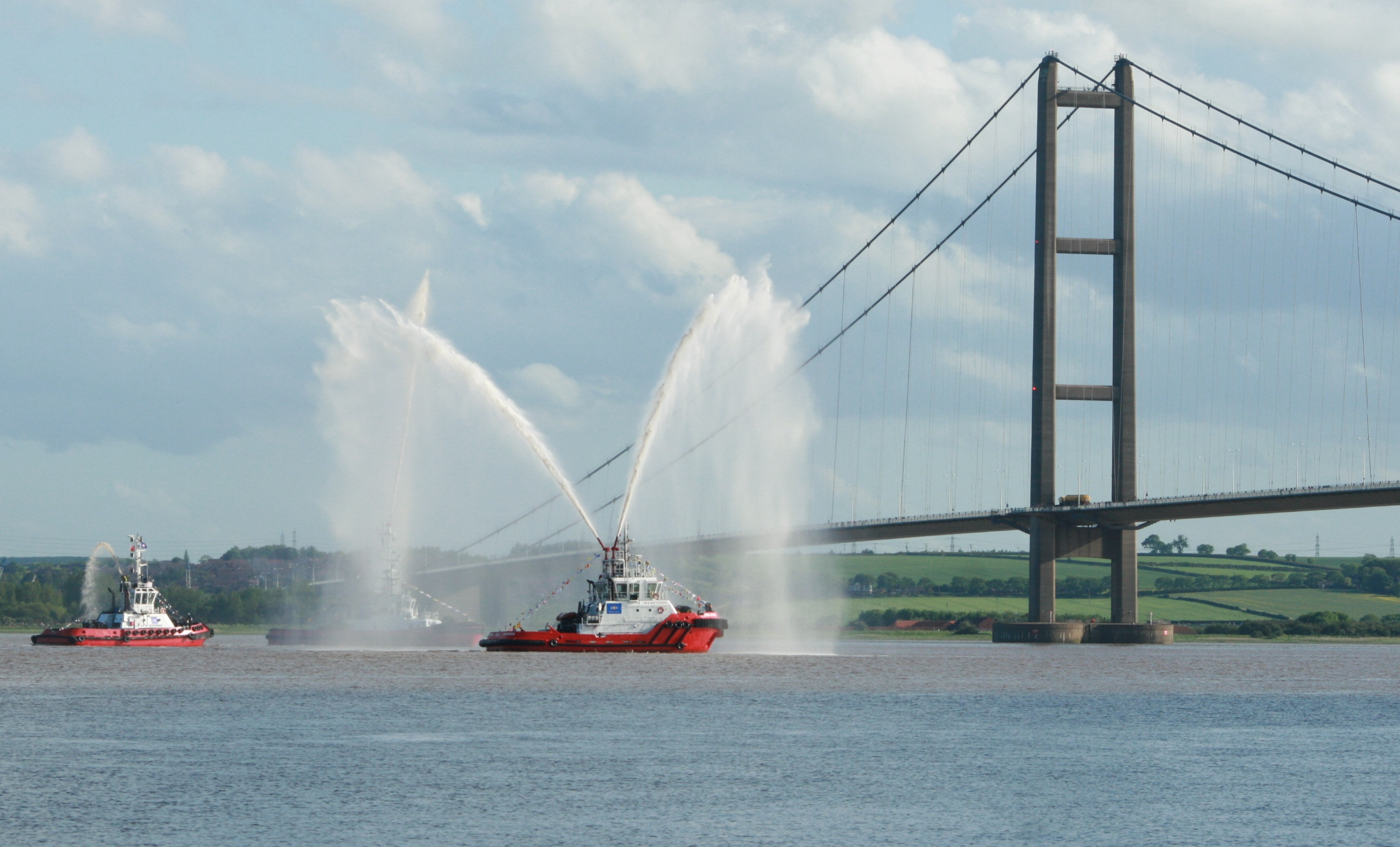 Tugboat "Englishman" from Associated British Ports at the celebrations of the Diamond Jubilee of Elizabeth II on 4 June 2012 at the Humber Bridge, Hessle, East Riding of Yorkshire.